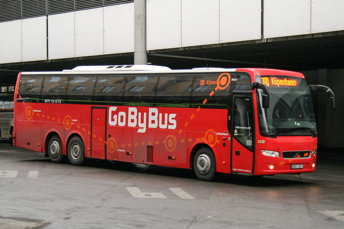 Nettbuss GoByBus line 300 to Copenhagen in Oslo.